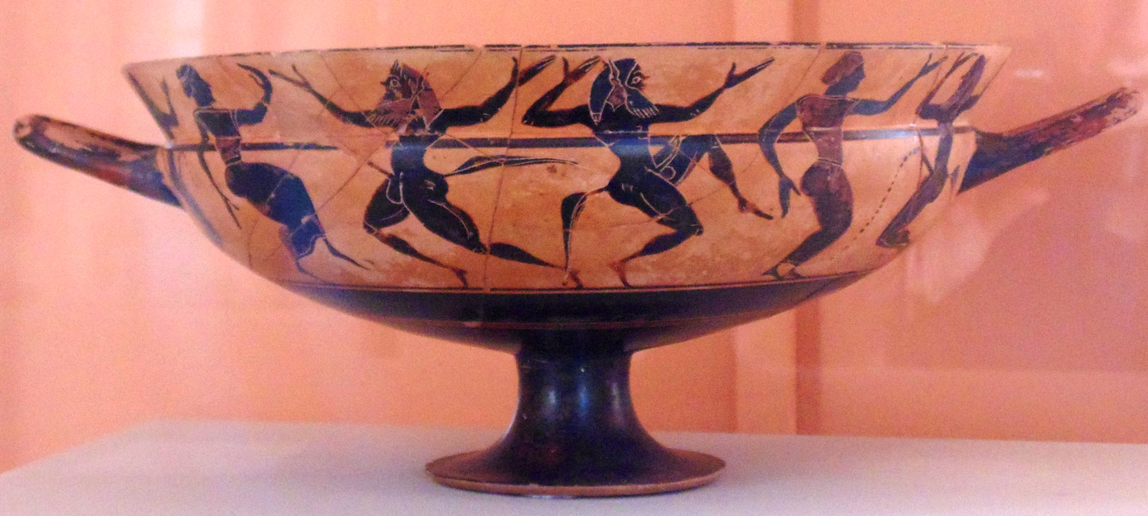 Collection of Archaeological Museum of Megara